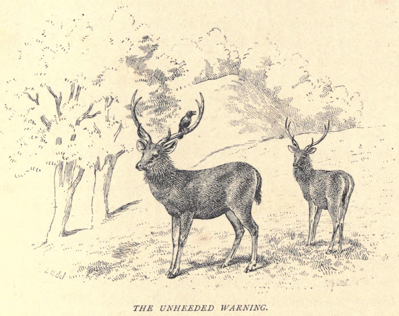 Douglas Hamilton, The Unheeded Warning...262